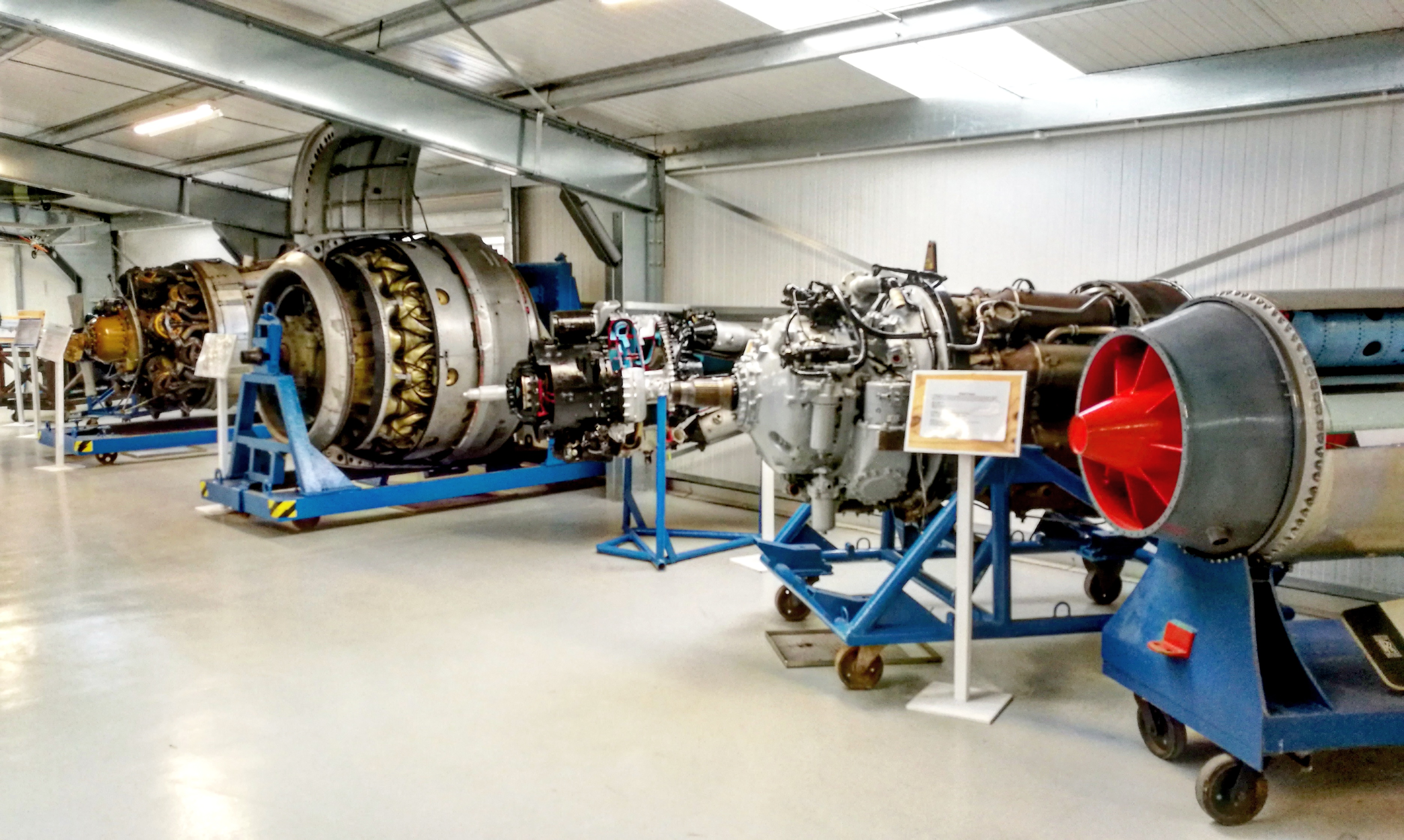 Some of the engines on display in the Gatwick Aviation Museum.